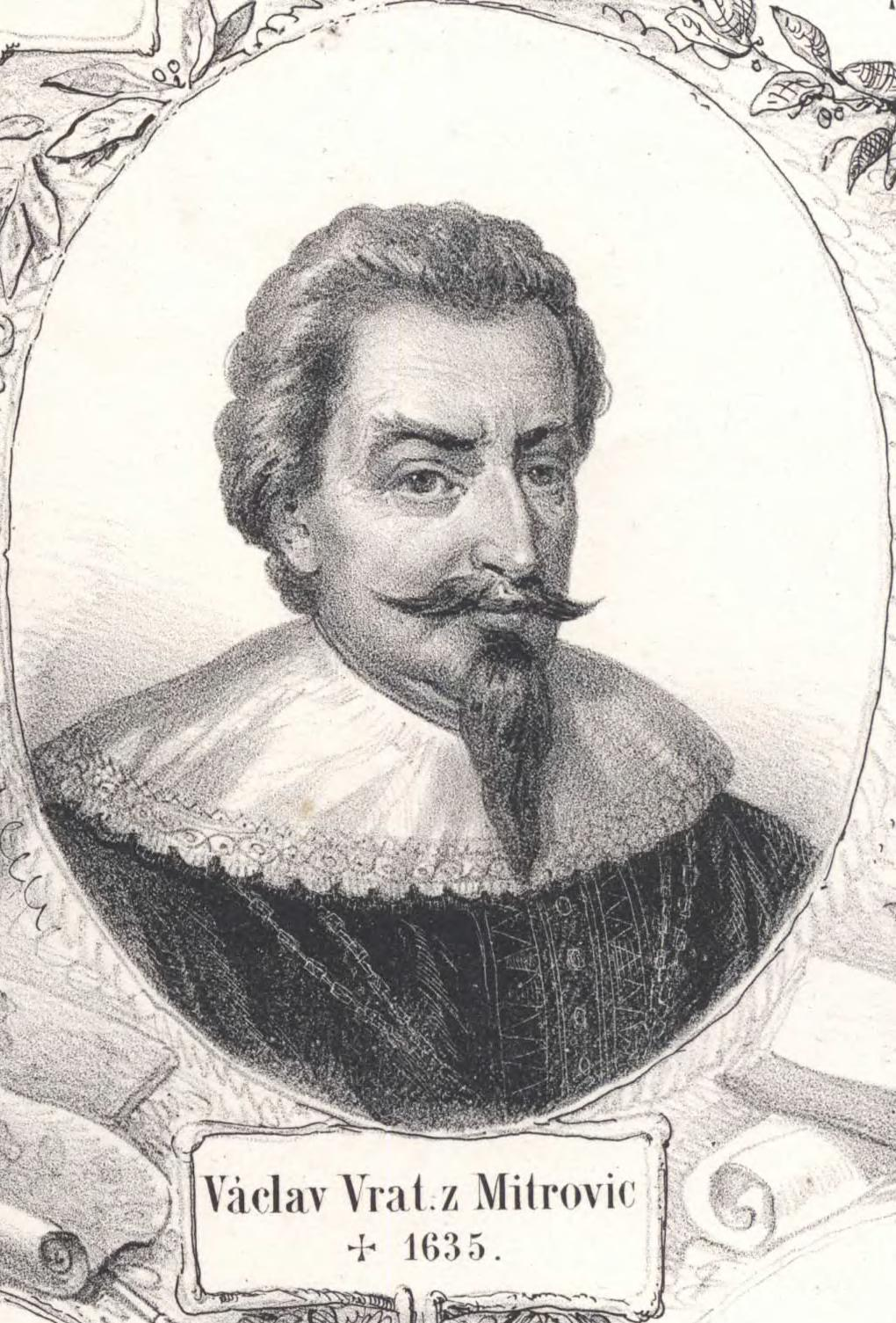 Portrait of Václav Vratislav z Mitrovic (1576 - 1736), Czech nobleman, politician and writer.